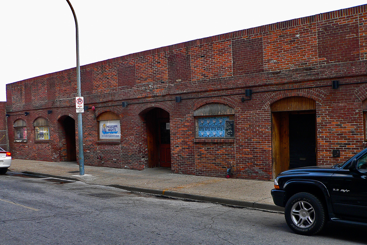 Photo taken of the night club Mississippi Nights in St. Louis, Missouri, USA